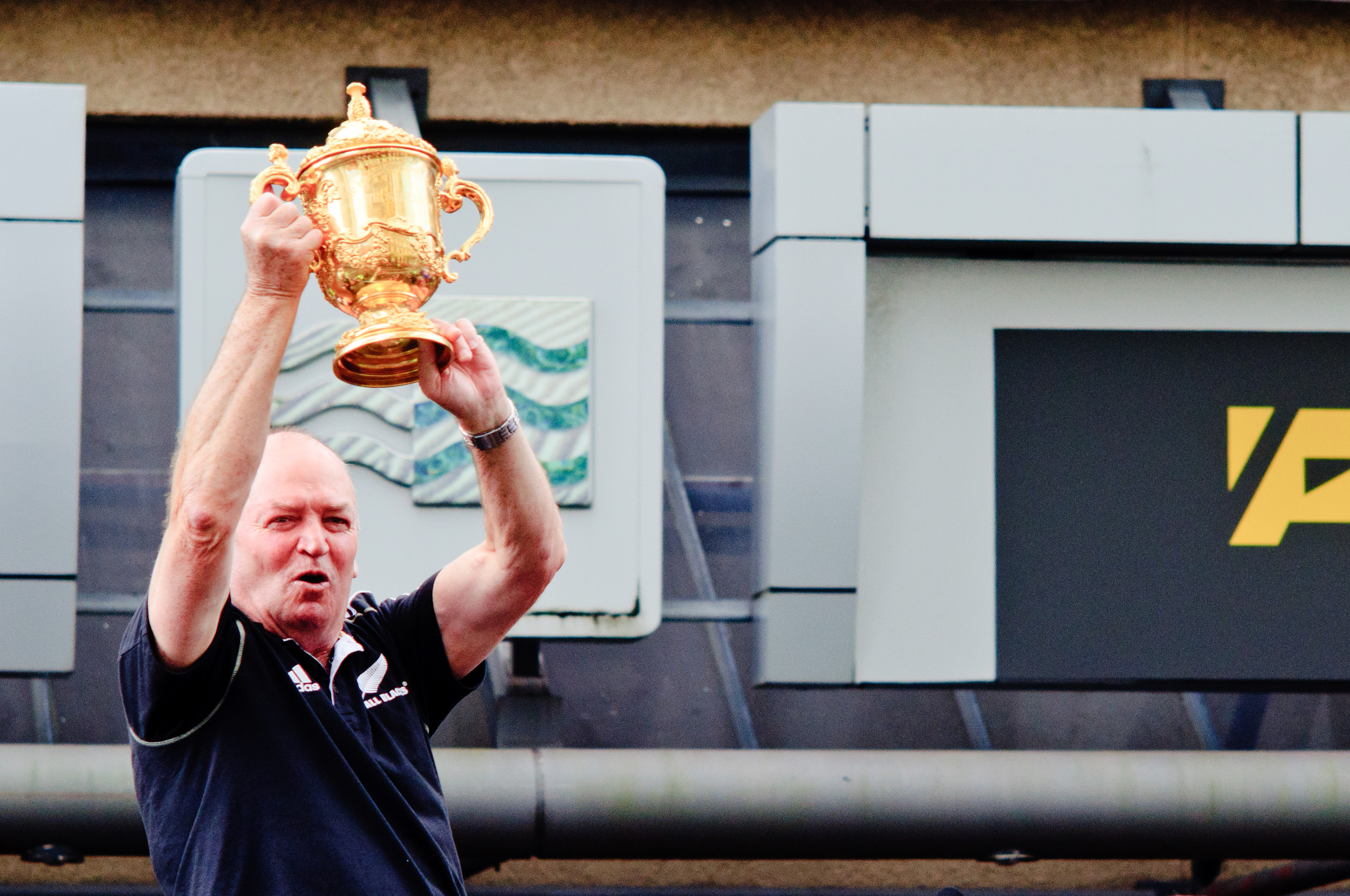 All Blacks winning coach, Graham Henry holding the Rugby World Cup October 2011